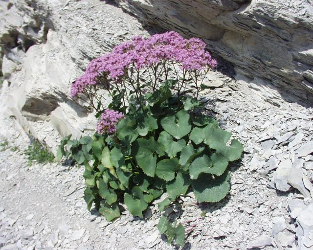 Alpine Plantain (Adenostyles alpina), a photography originating of the internet site The accord of the autor, H. Brisse, is here. Adénostyle des Alpes (Adenostyles alpina), une photographie issue du site internet L'accord de l'auteur, H. Brisse, se situe ici.